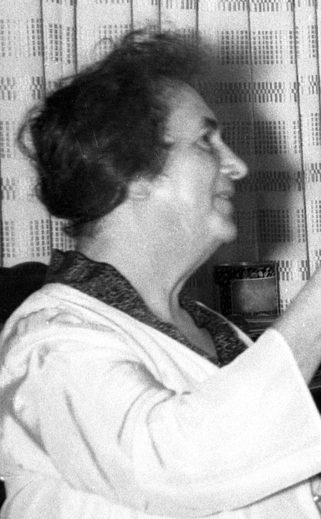 Recha Freier, founder of the Youth Aliyah organization (`1964)